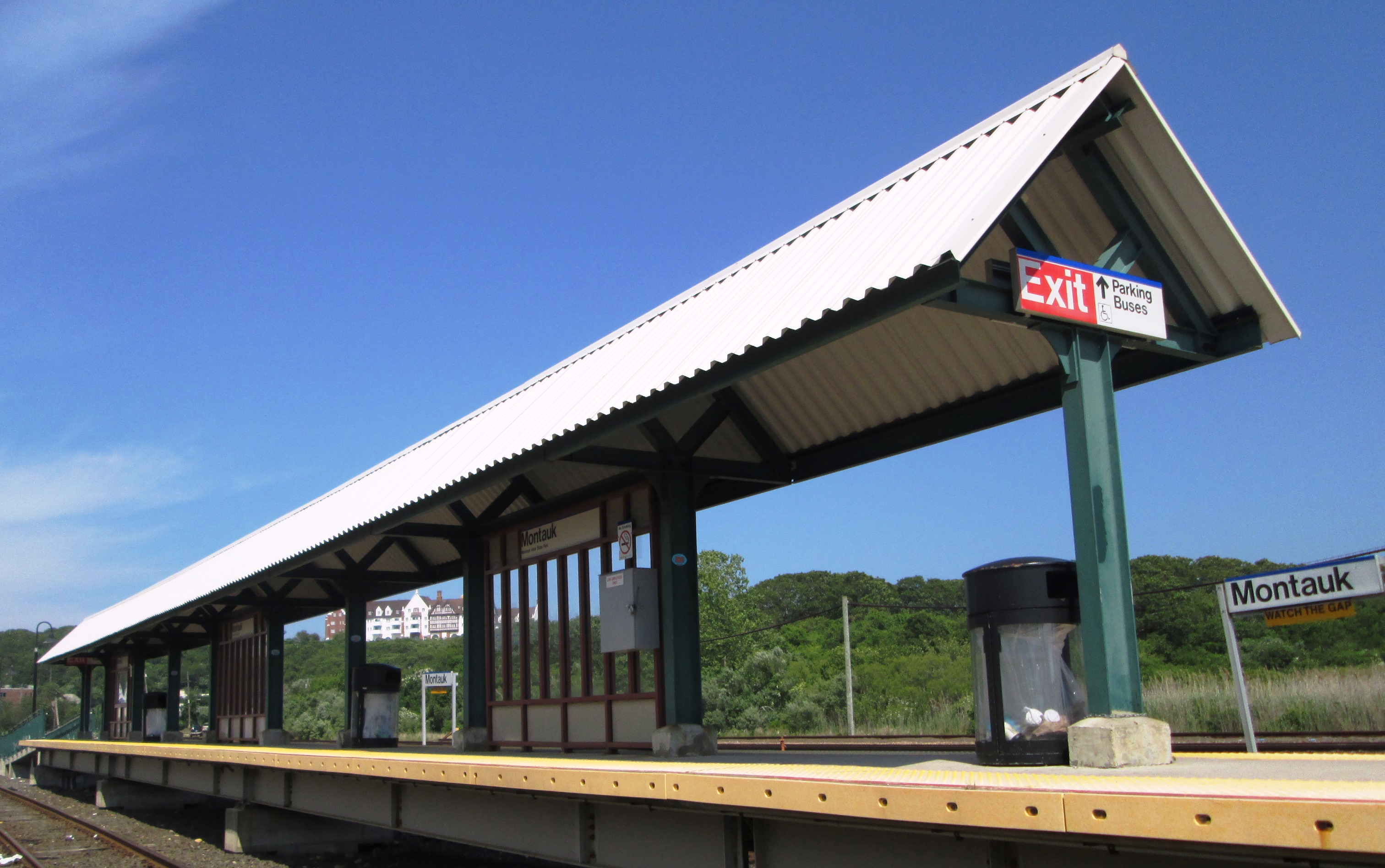 Montauk is the terminus of the Montauk Branch of the Long Island Rail Road, and as such is the easternmost railroad station on Long Island. The station is located on Edgemere Street (Suffolk County Road 49) and Fort Pond Road west of Montauk Harbor, New York. Originally built in 1895 by the Brooklyn and Montauk Railroad, it was demolished in 1907, then rebuilt twenty years later, only to be relocated by the US Navy during World War II. The current Montauk station is an unoccupied high-level center platform for two of the seven tracks. The platform from the old station leads to the current station. The previous station house is now known as the Depot Art Gallery.